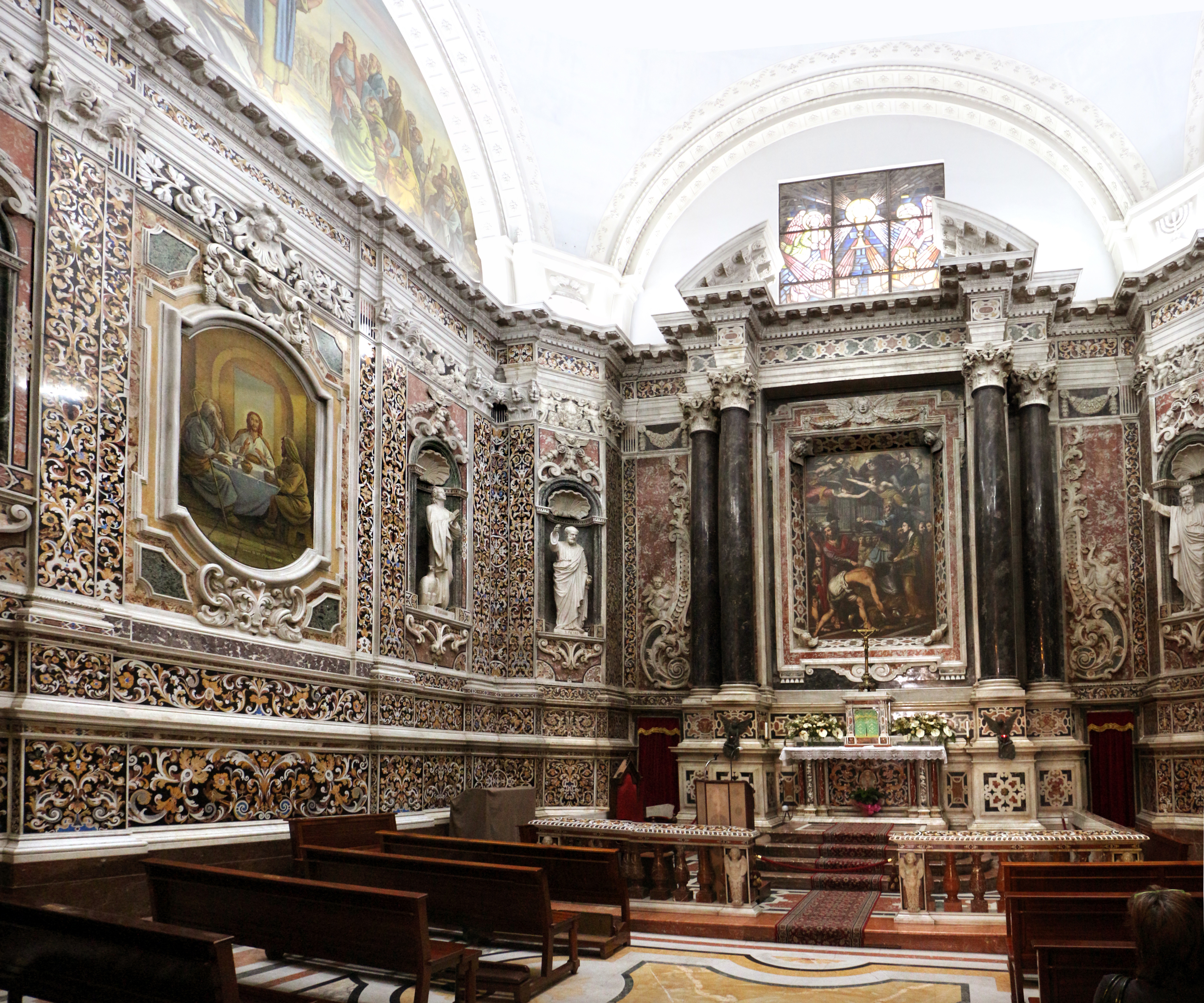 Cathedral (Reggio Calabria)